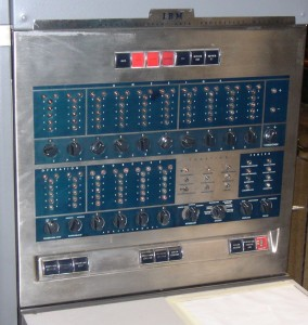 Front panel of working IBM 650 computer. This instance was built in 1956 and was in use until 1965; it was then in a museum in Austria until restoration to full working order in 1992-94; it was then in the IBM Museum in Sindelfingen which closed in 2012. It was then moved to the IBM R&D Lab in Böblingen.[1]